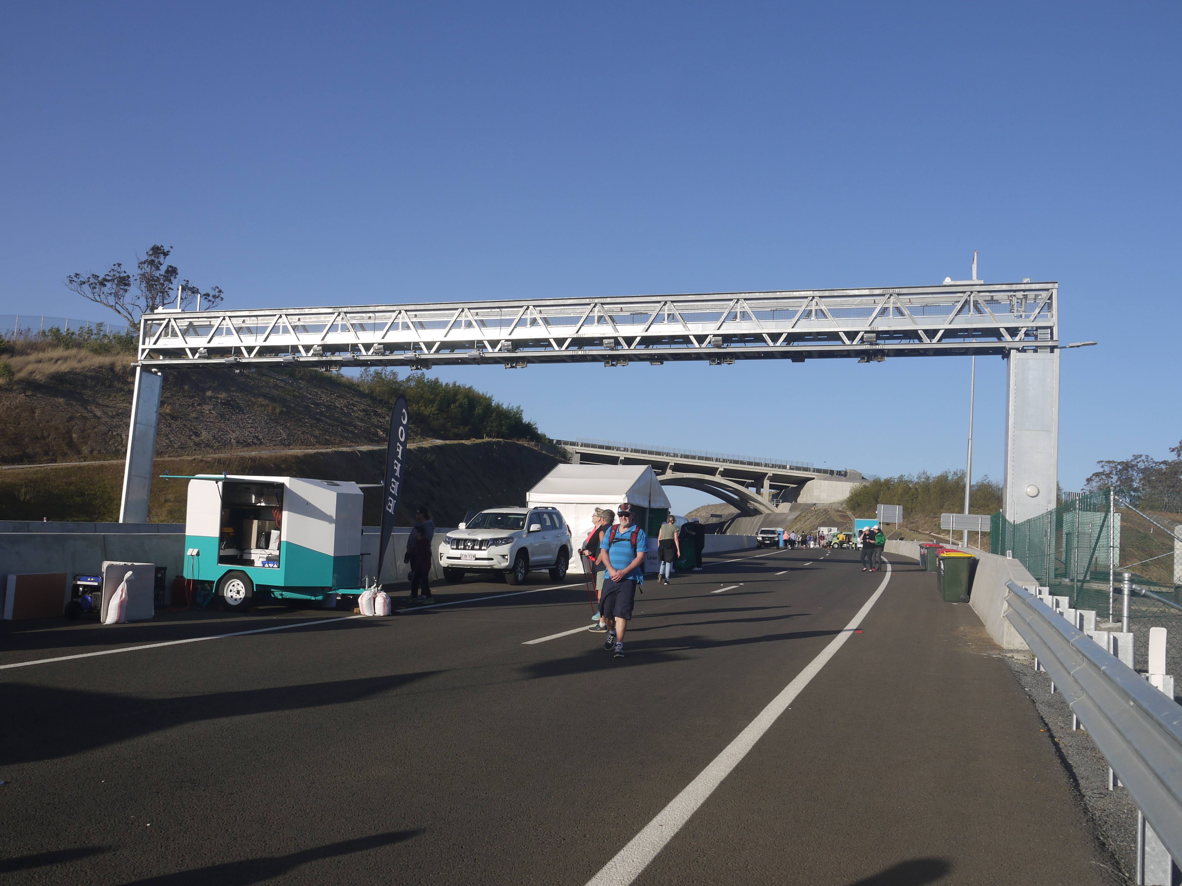 Toll Gantry on Toowoomba Second Range Crossing. Taken on Community Open Day, 7 September 2019.